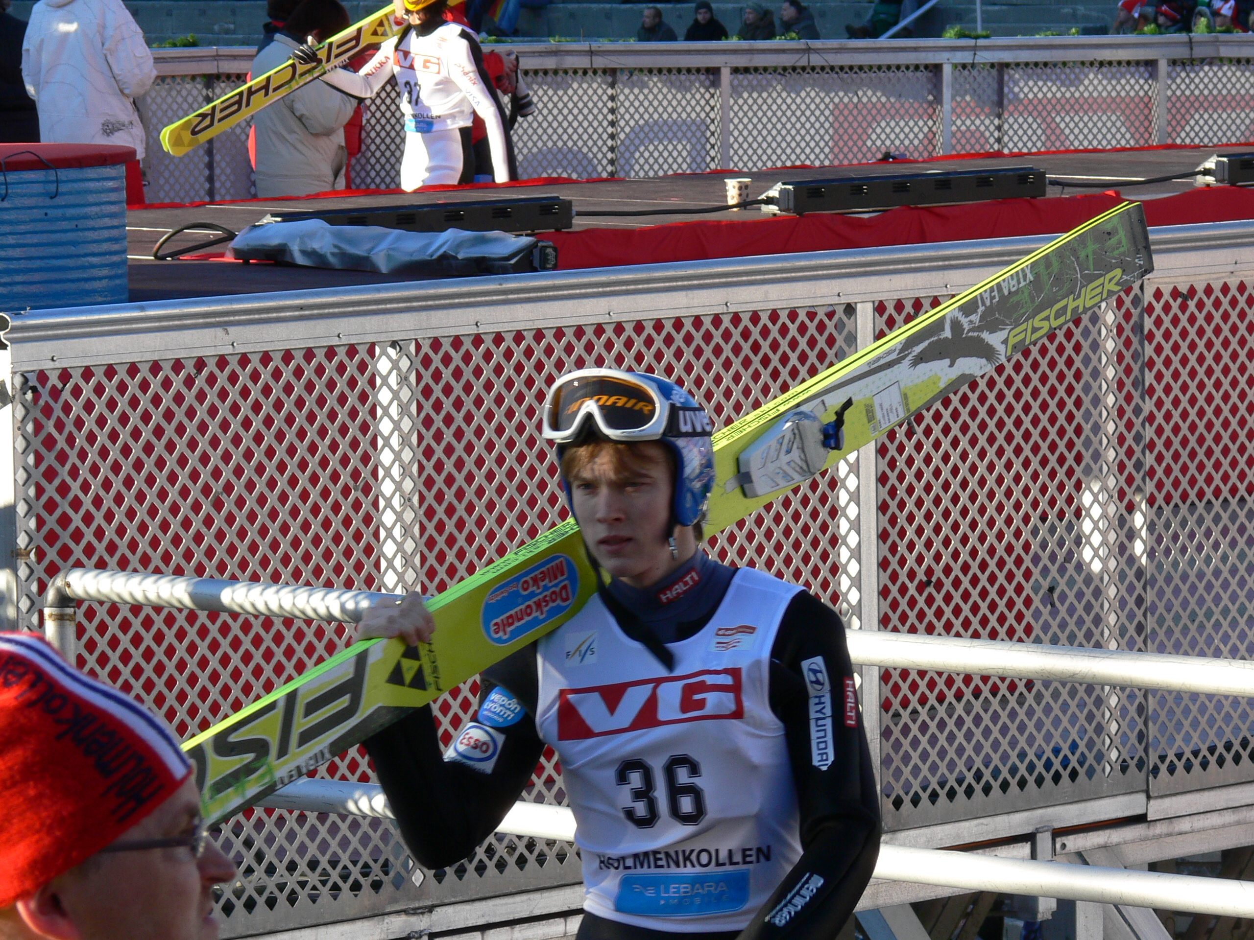 From the 2007 World Cup ski jumping event in Holm